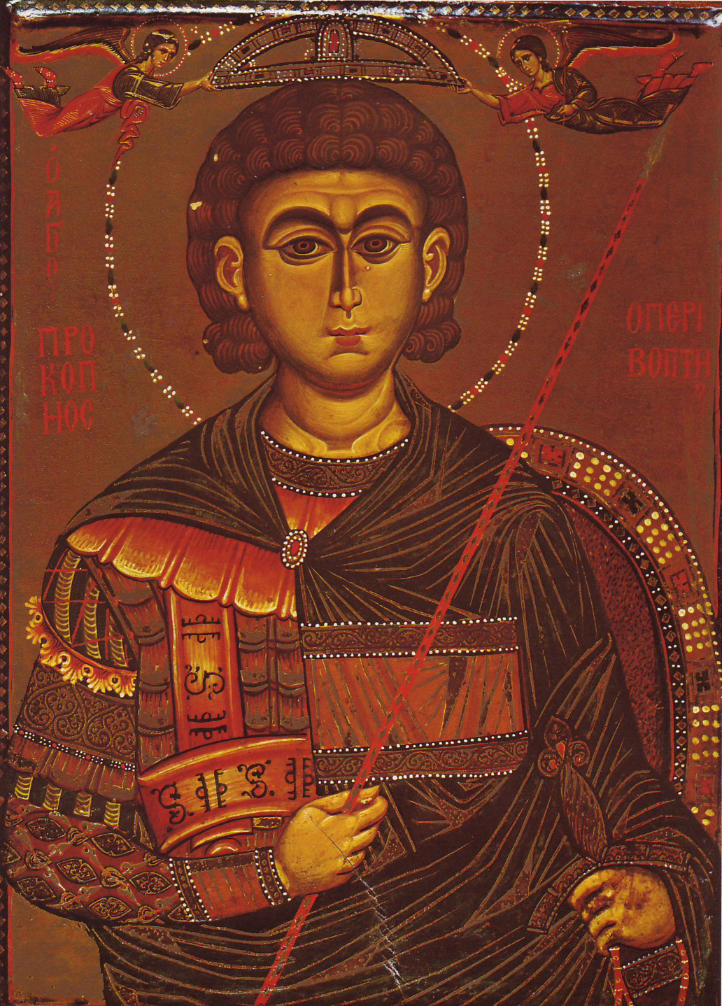 Half-length portrait of Saint Procopius of Scythopolis, probably by an occidental artist. Third quarter of the 13th century. 50.6 x 39.7 cm